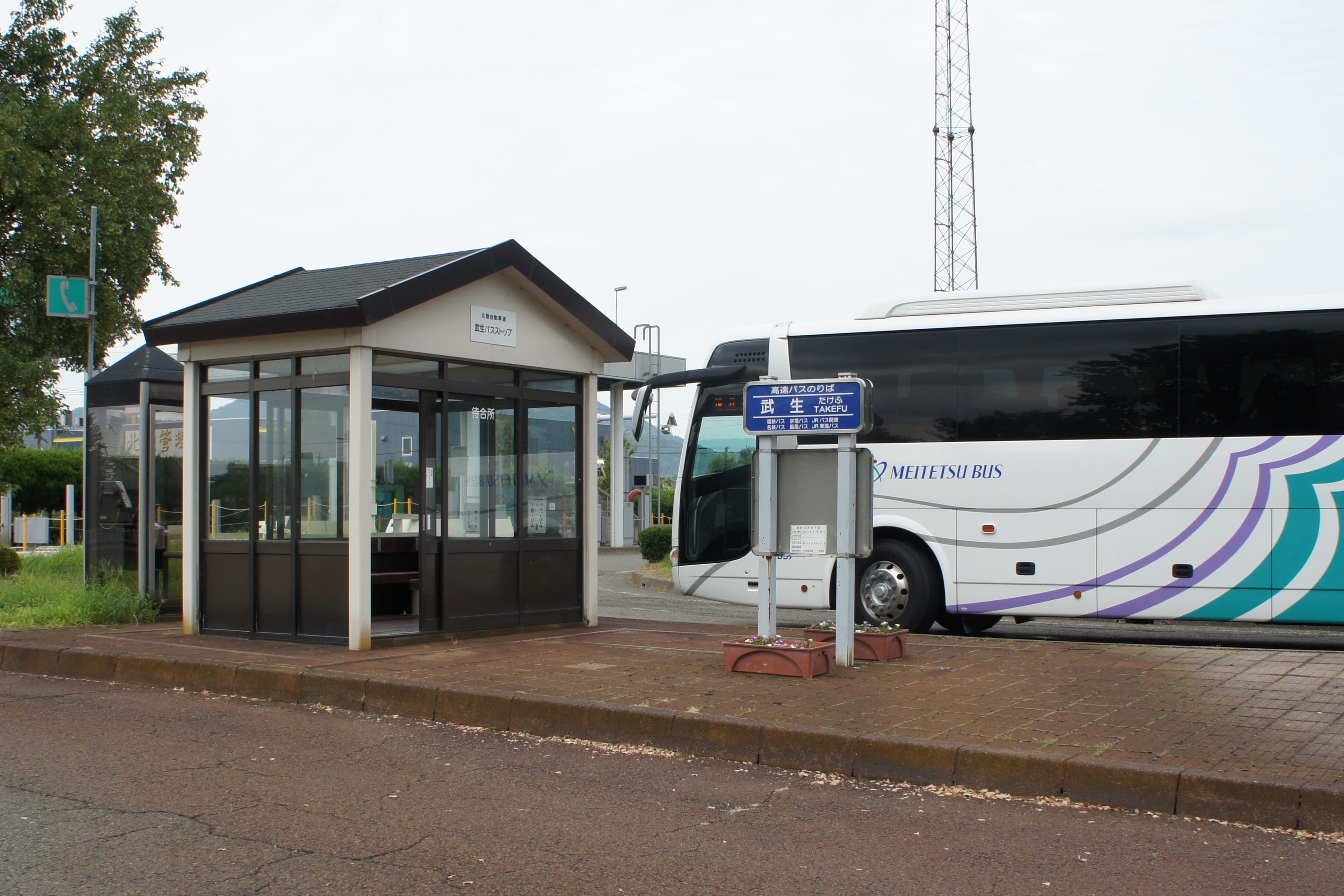 Bus stop attached to the Takefu Interchange in Echizen City, Fukui Prefecture, Japan